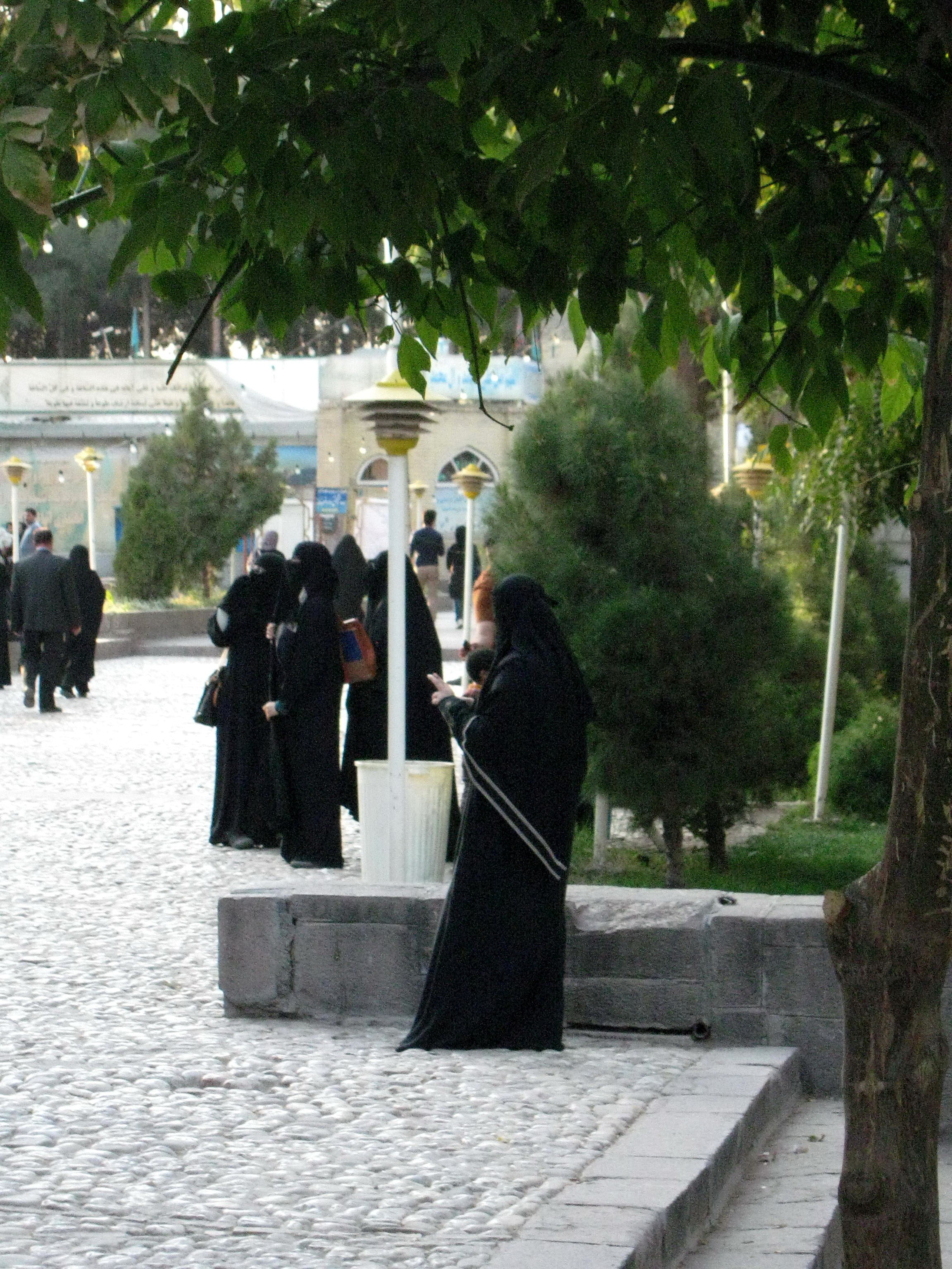 Saudi Arabian woman with Burqa taking photo from Mosque of Mohammad al Mahruq - Nishapur 1